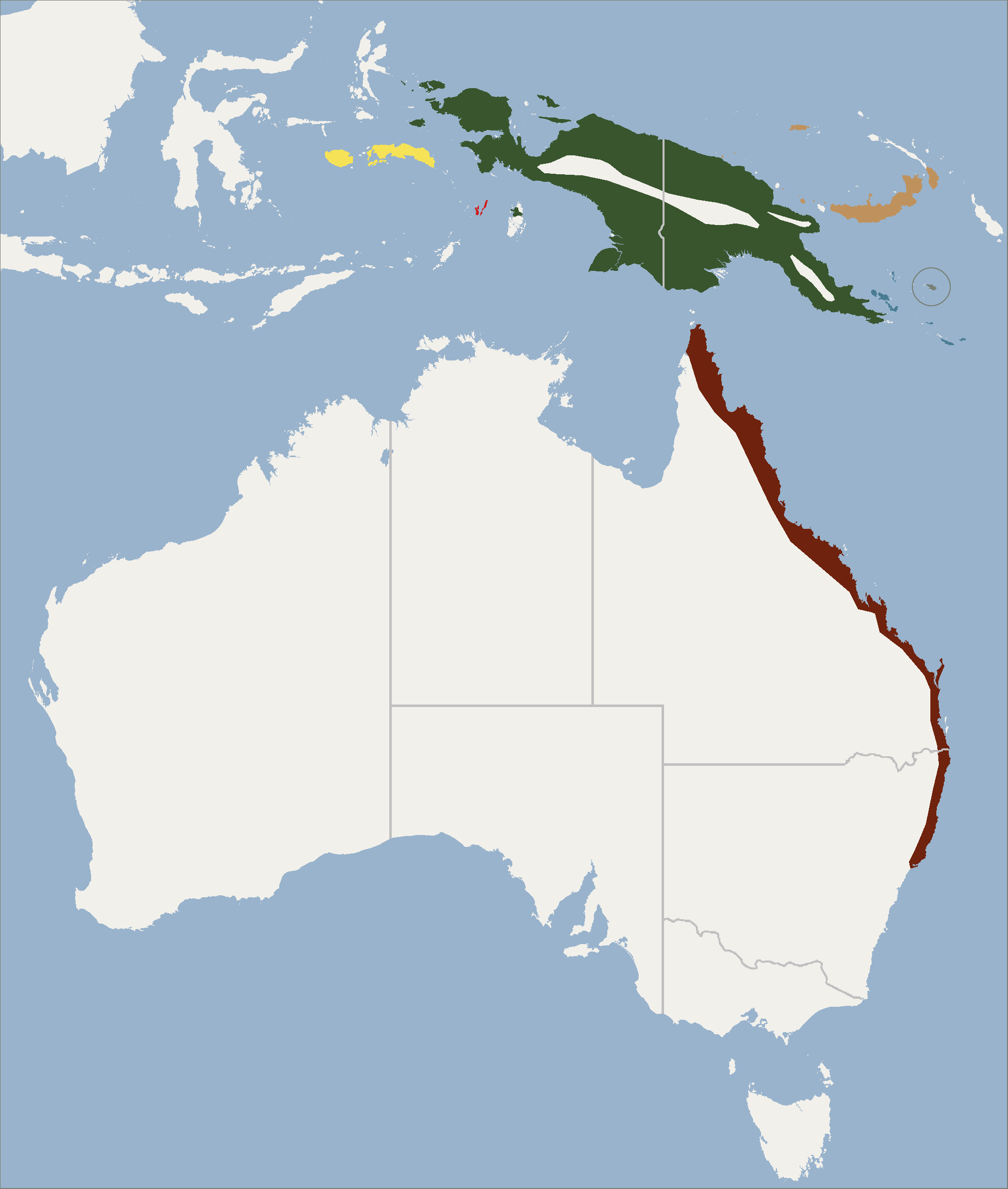 According to Flannery, 1995 and Menkhorst and Knight, 2001. Subspecific range in different colours.